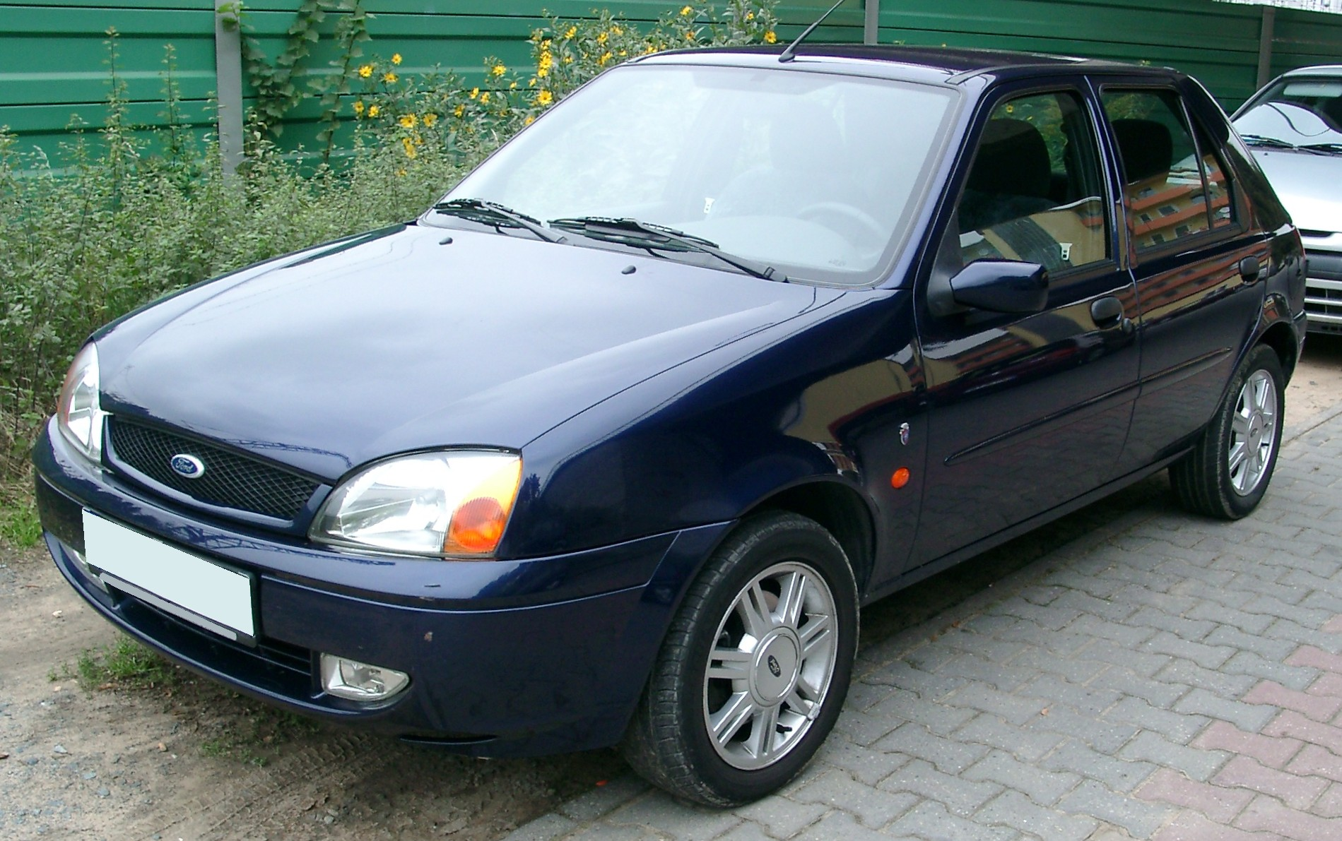 Ford Fiesta MK5